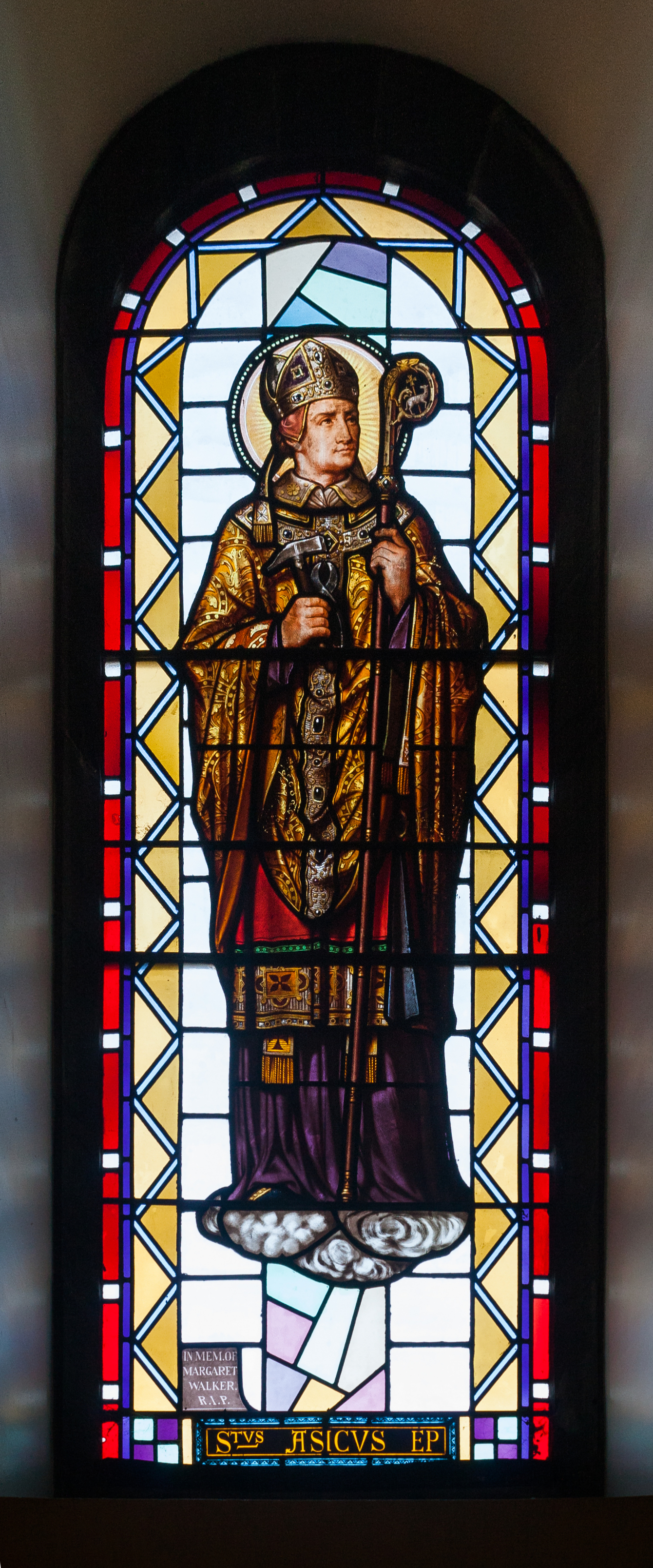 Third stained glass window in the ambulatory (counting from left to right, beginning from the west transept), depicting Asicus, the first bishop of Elphin. Lucien-Leopold Lobin (1837–1892) DescriptionFrench stained-glass artist and painterDate of birth/death 1837 1892 Location of birth/death Tours ToursWork location Tours Authority control : Q18901086 VIAF: 75593756 LCCN: n97009200 WorldCat creator QS:P170,Q18901086